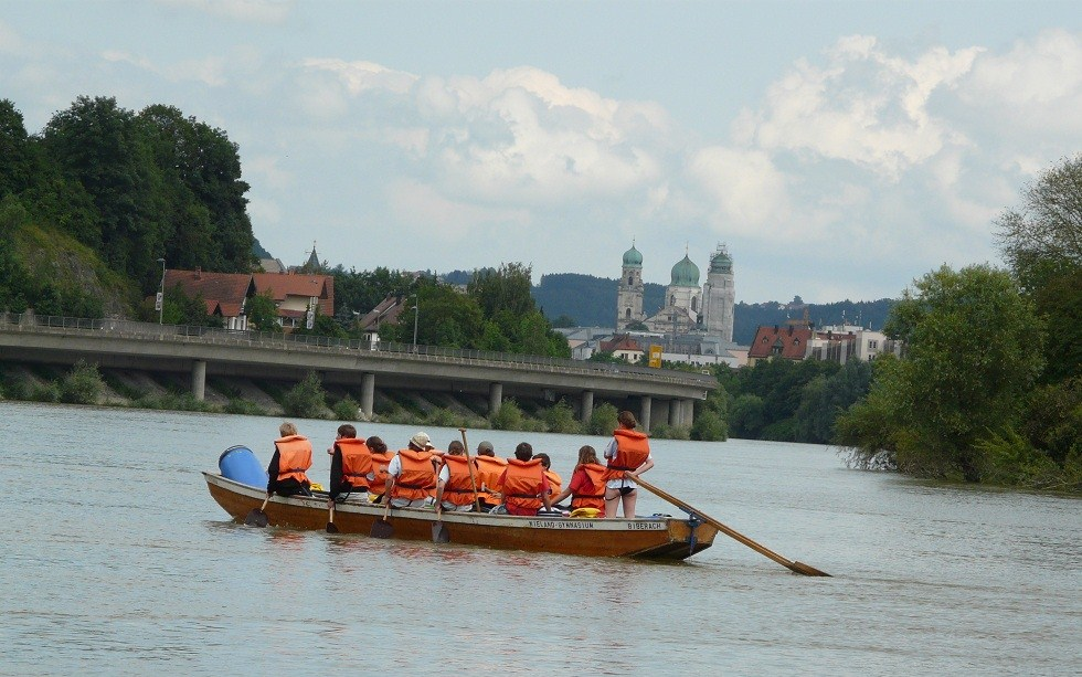 Eine Zille des Wielandgymnasiums auf der Donau, kurz vor dem Etappenziel Passau